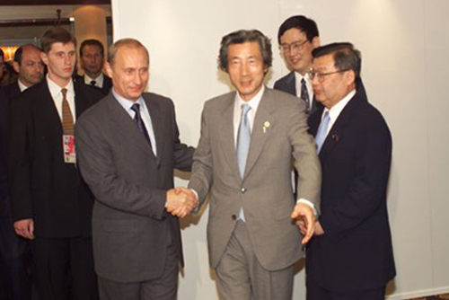 THE M/S EUROPEAN VISION, GENOA. President Vladimir Putin with Japanese Prime Minister Junichiro Koizumi.